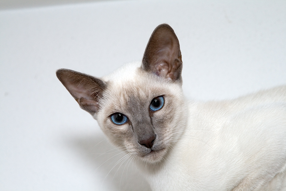 Male siamese cat Lilac Point, modern type. Name: Freaky Curry vom Elzer Berg, cattery: vom Elzer Berg